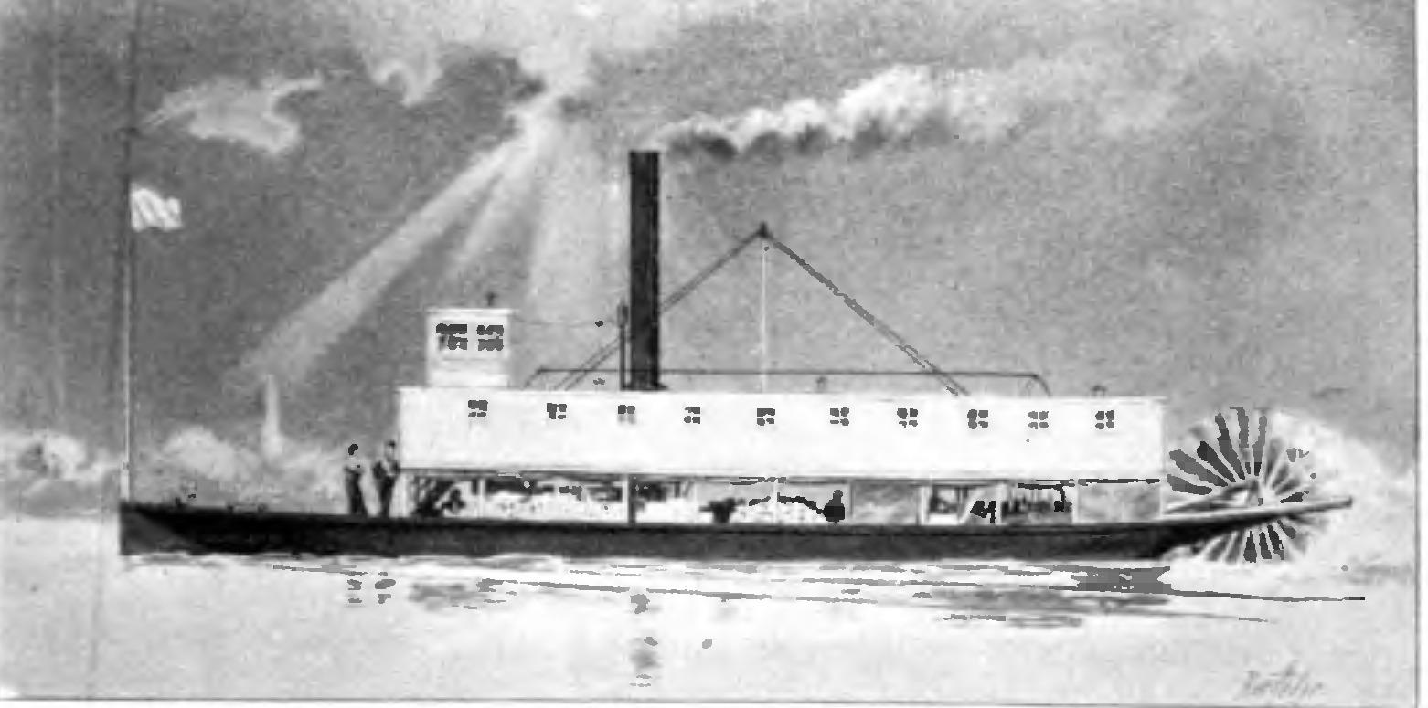 Steamboat Enterprise built at Canemah, Oregon in 1885, later served on Fraser and Chehalis Rivers